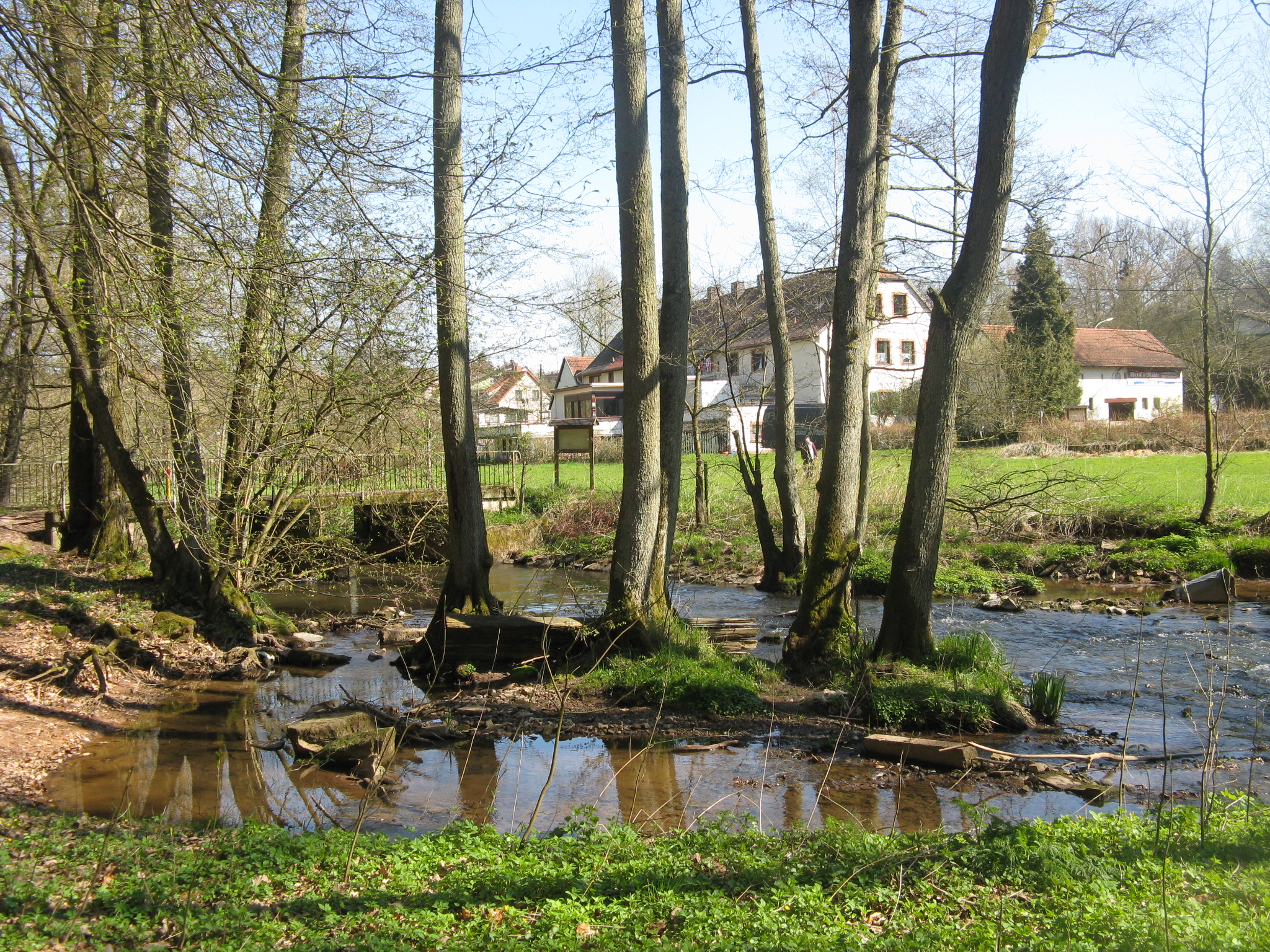 Oster creek near historic mill at Fürth (Ostertal), Saarland/Germany